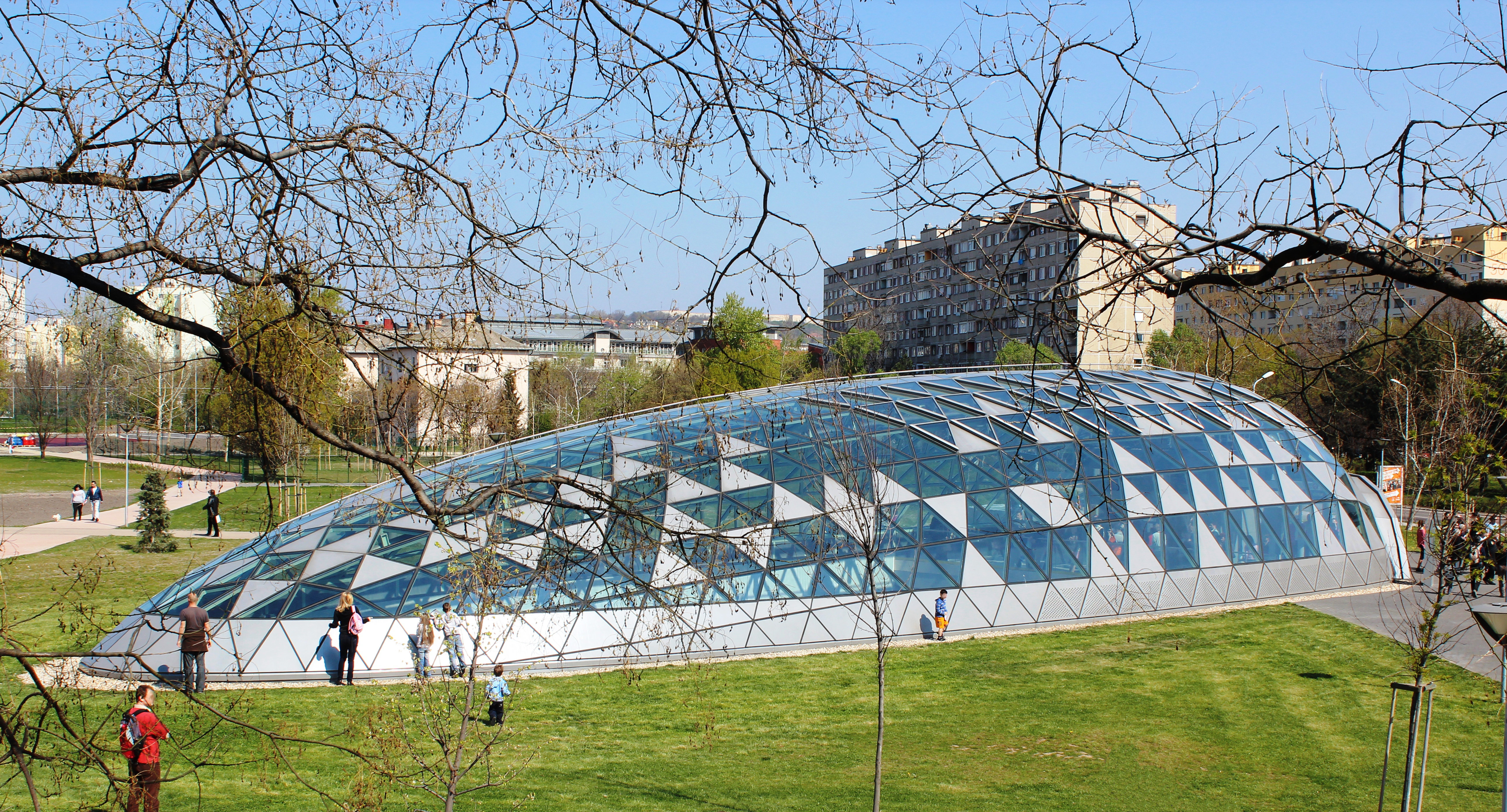 Bikás park M4 metro station, Budapest, XI. district